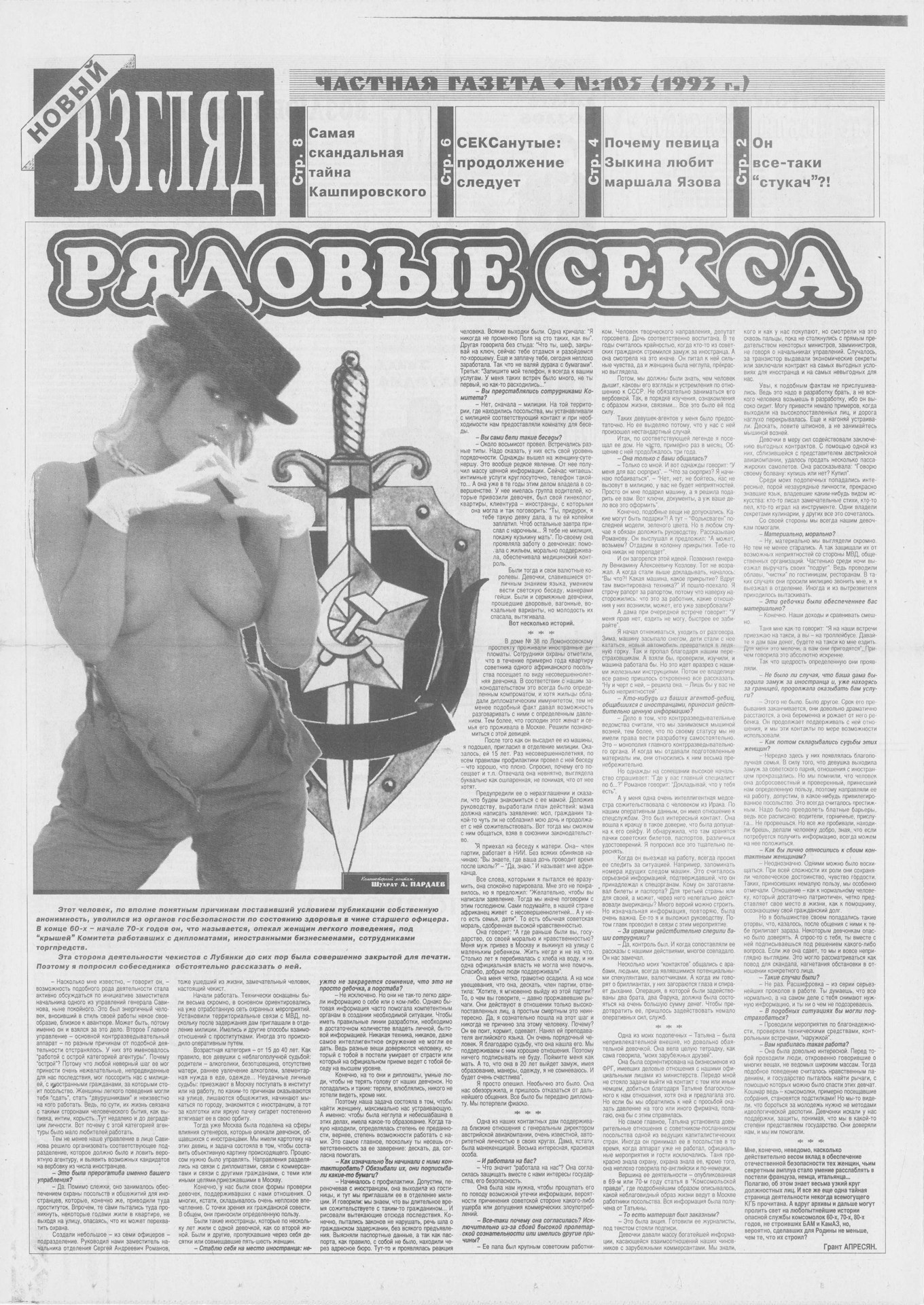 Frontpage of Novy Vzgljad weekly